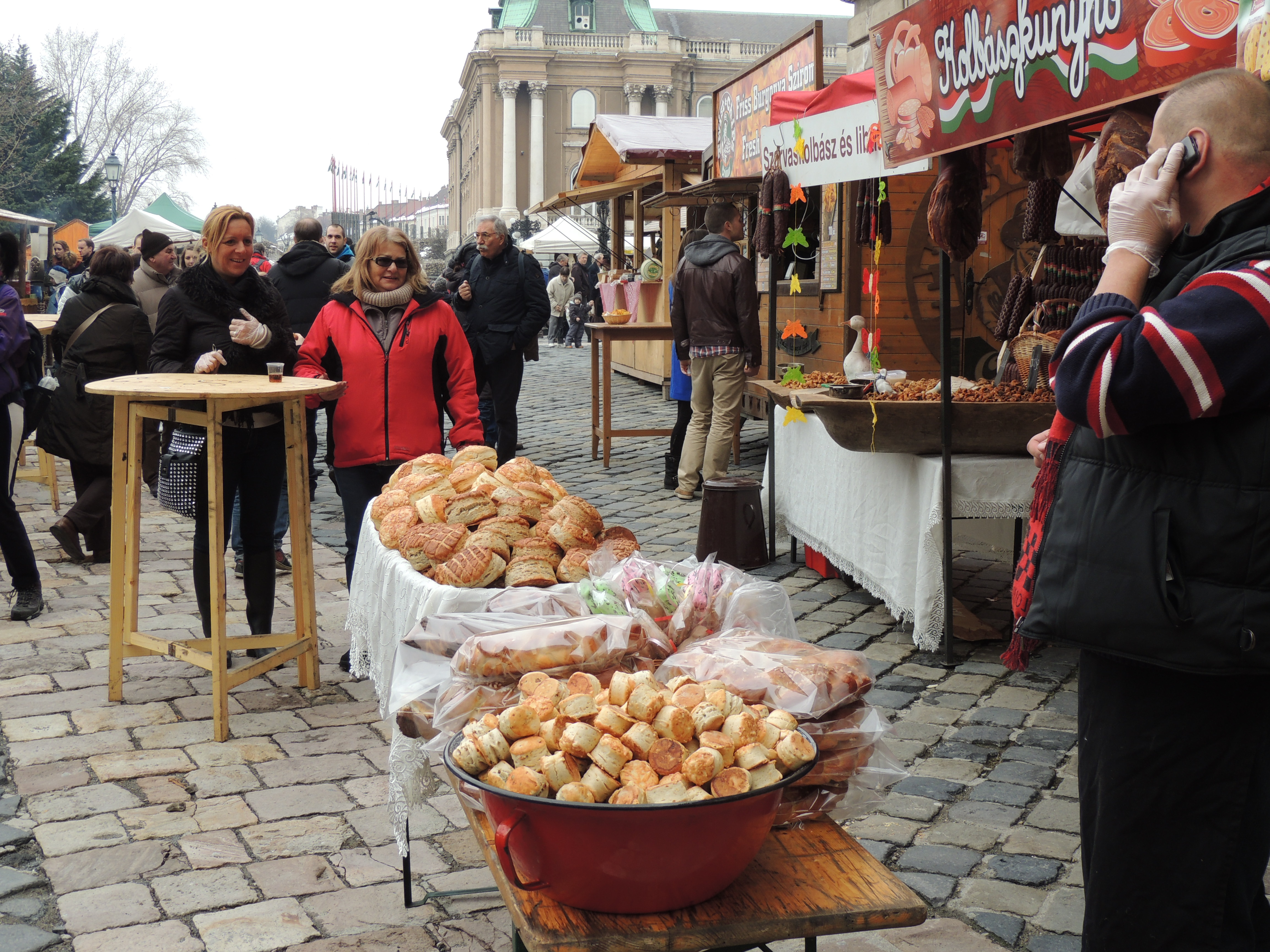 Pogácsa Hungarian home style foods, Cracklings at the Budapest